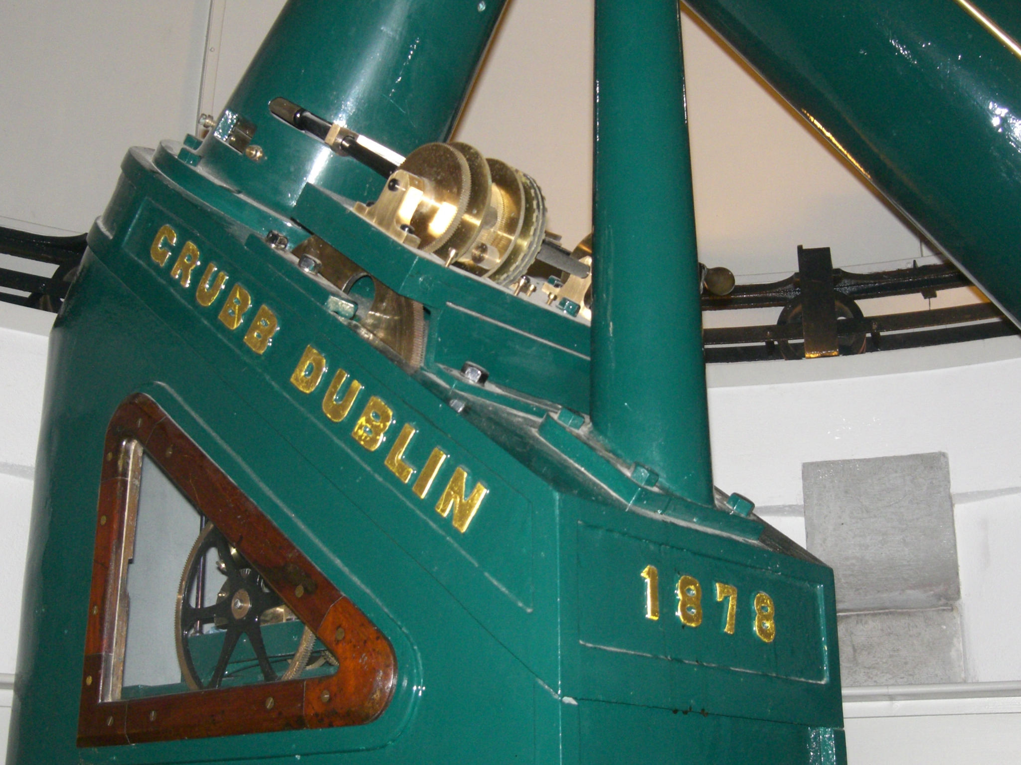 Crawford Observatory, sur le campus de University College Cork, Irlande